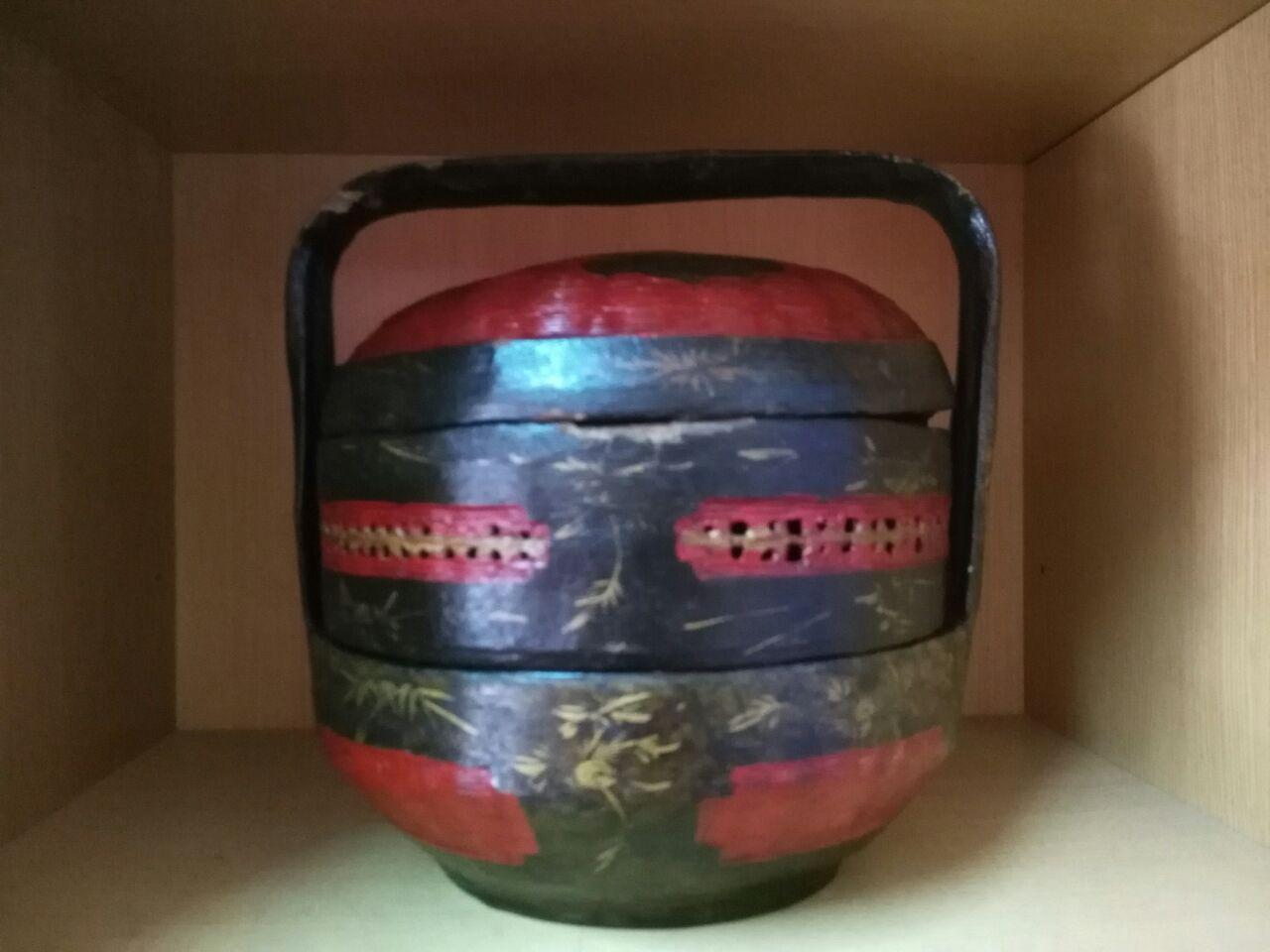 Bekas makanan